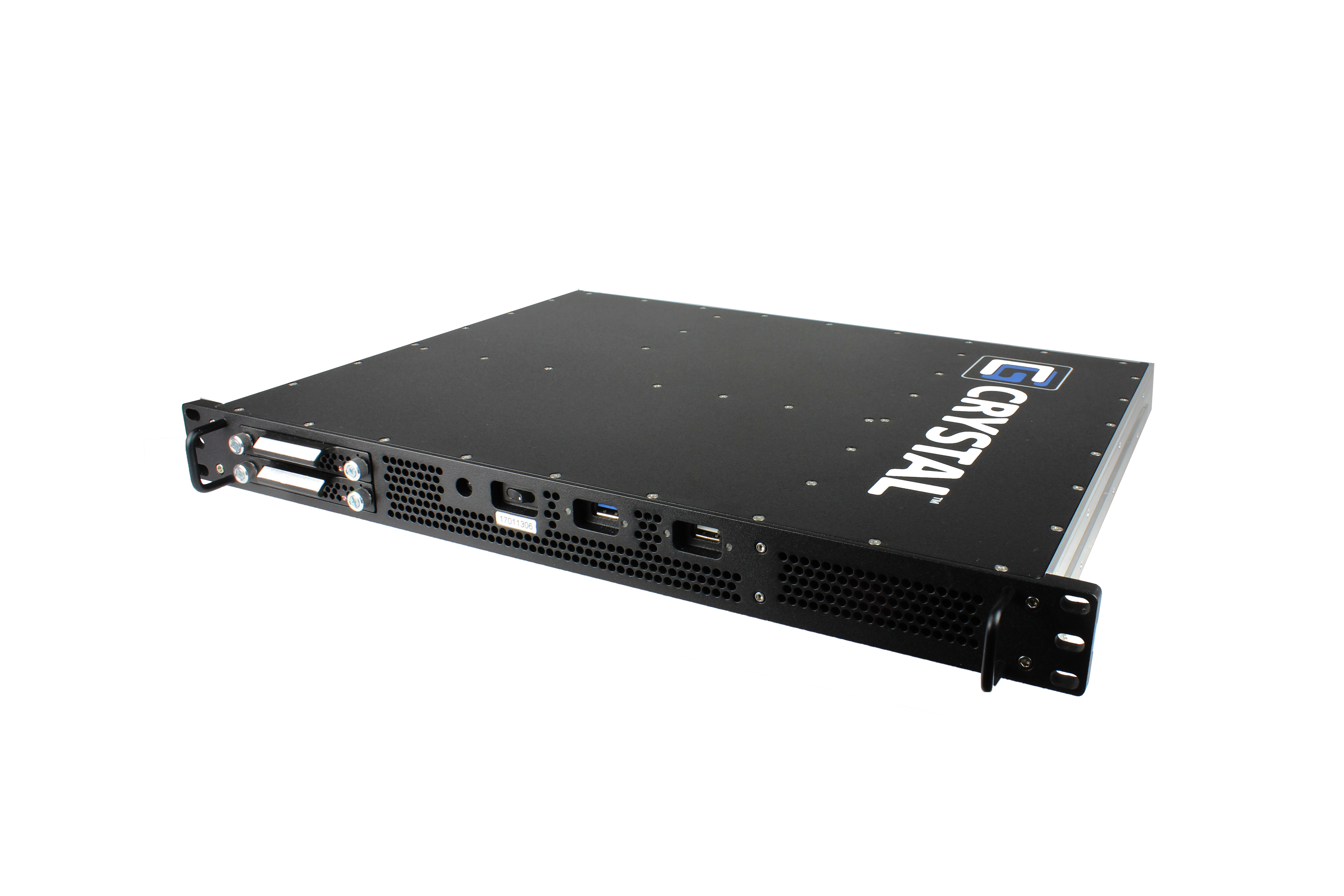 Crystal Group's RS112 Rugged 1U Server